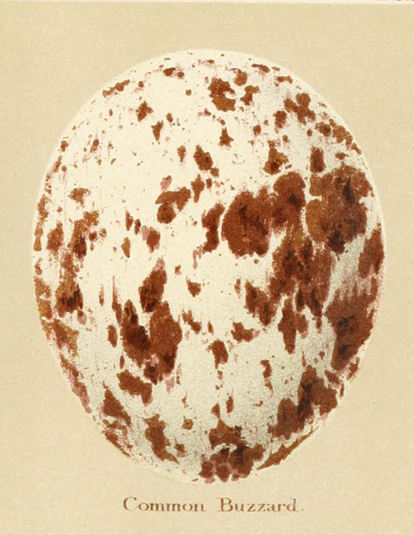 As file name